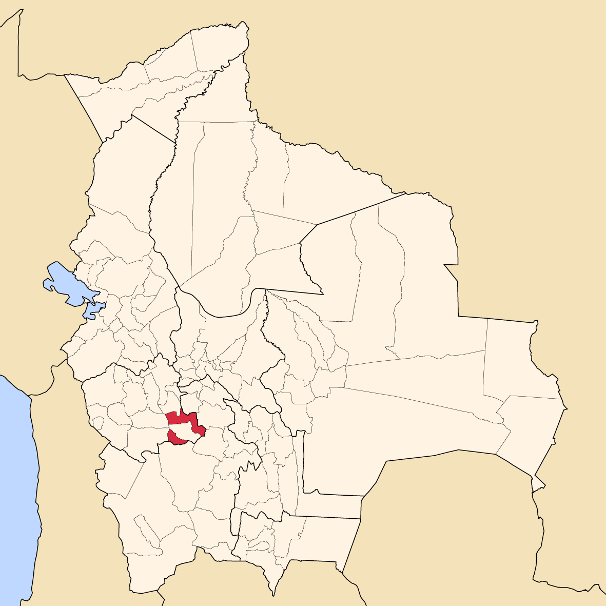 Map of Bolivia showing Eduardo Abaroa province, Oruro